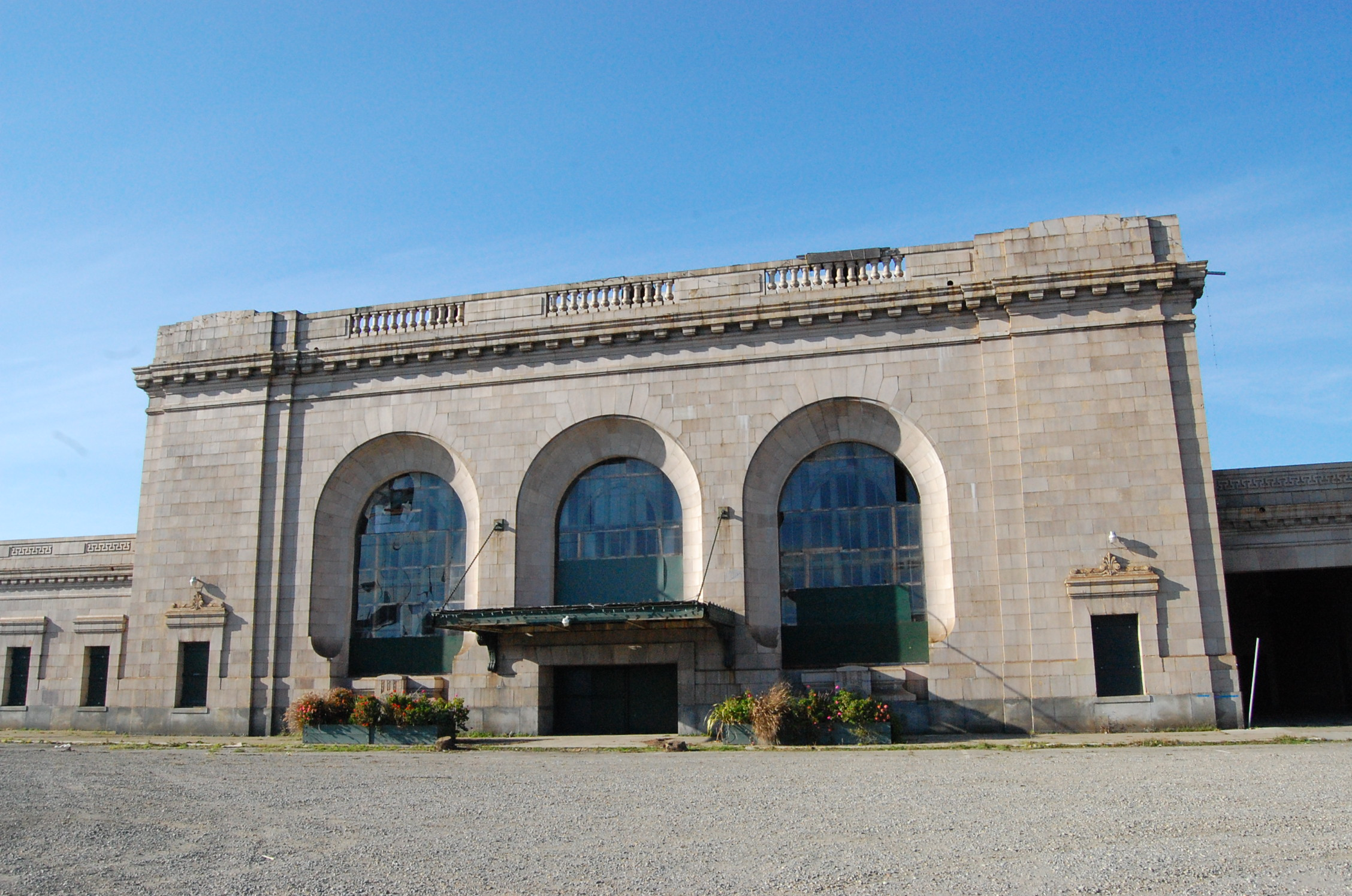 16th Street Station, Oakland California. Photographed on December 12, 2007